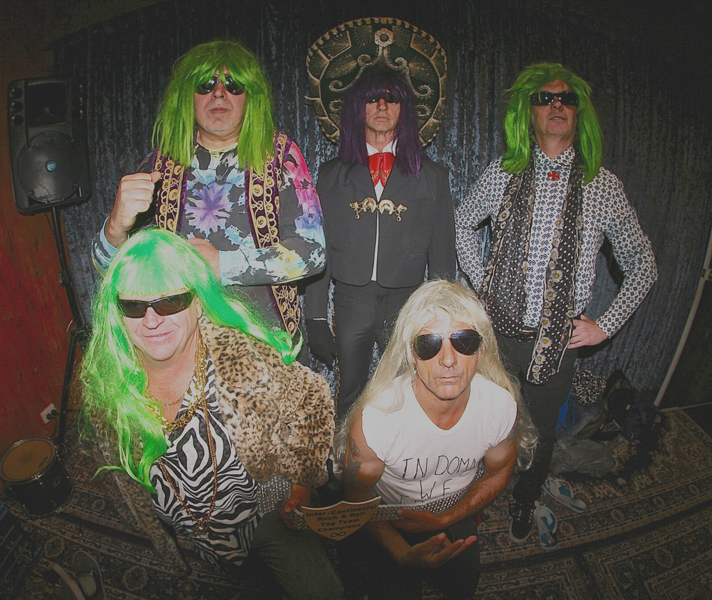 The Psychotic Turnbuckles as of 2013.